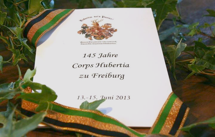 invitation to celebrate 145 years of Corps Hubertia Freiburg